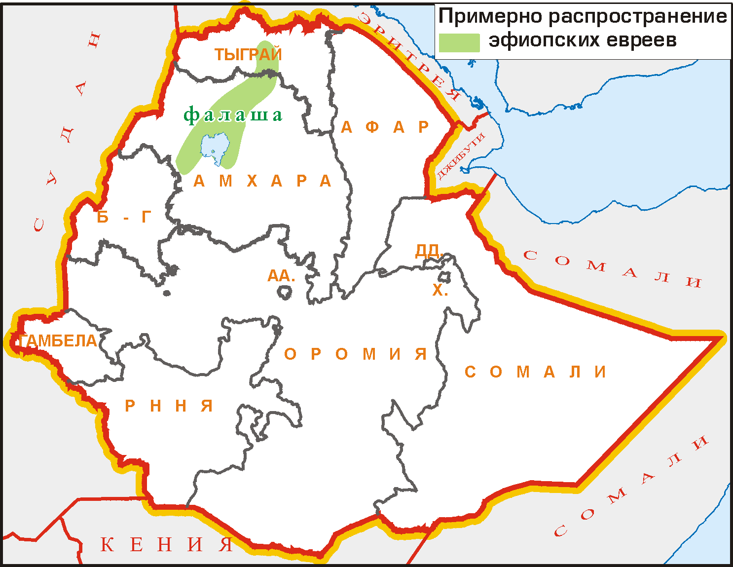 Approximate area of Ethiopian Jews (Beta Israel).